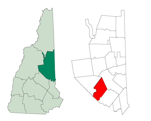 Created from Boundary/Border Outline Files of the Libre Map Project which held a BY-SA creative commons license. Data origionally from 2000 US Census boundary data.